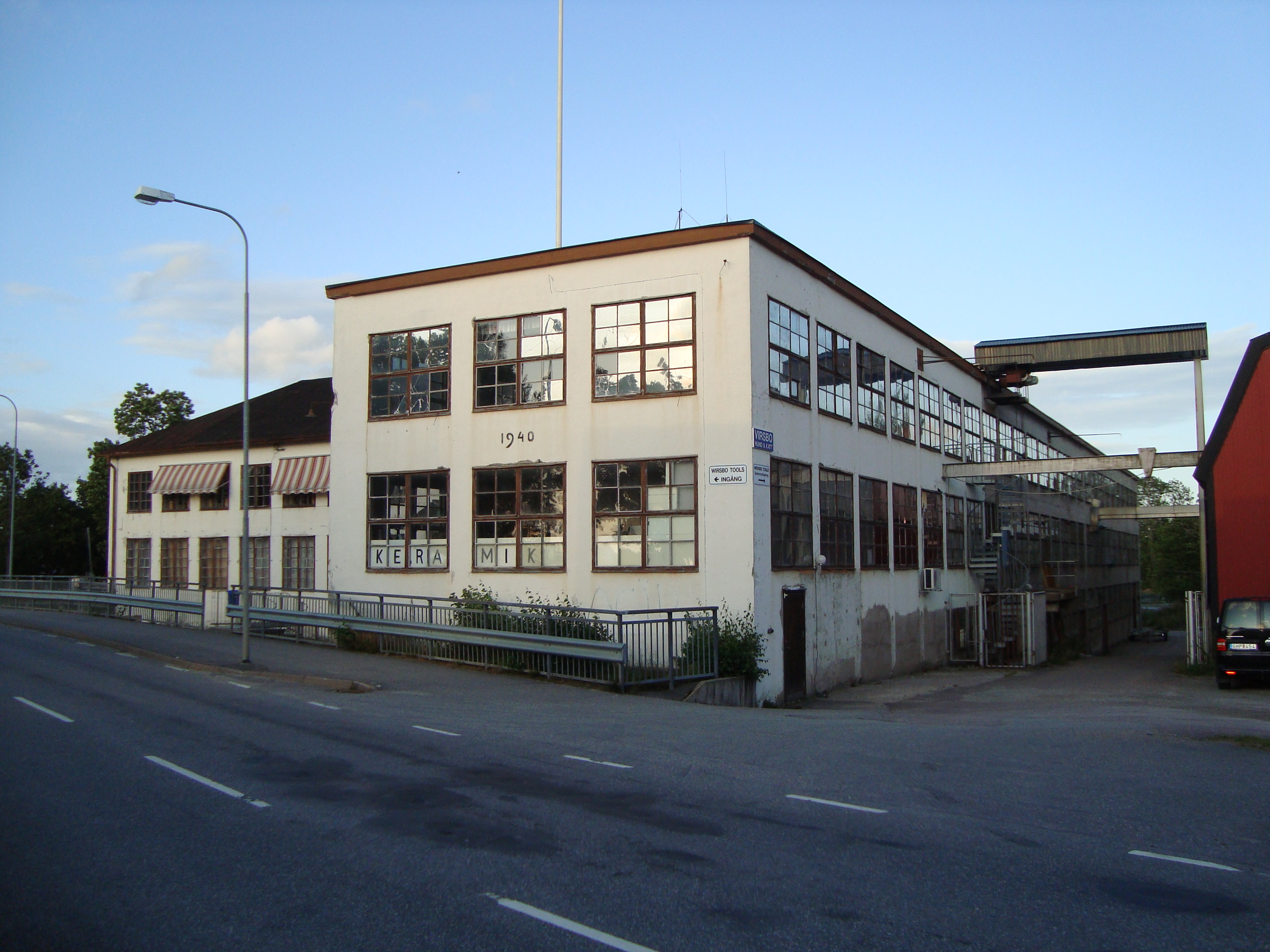 Virsbo old ironworks, Surahammar Municipality, Sweden